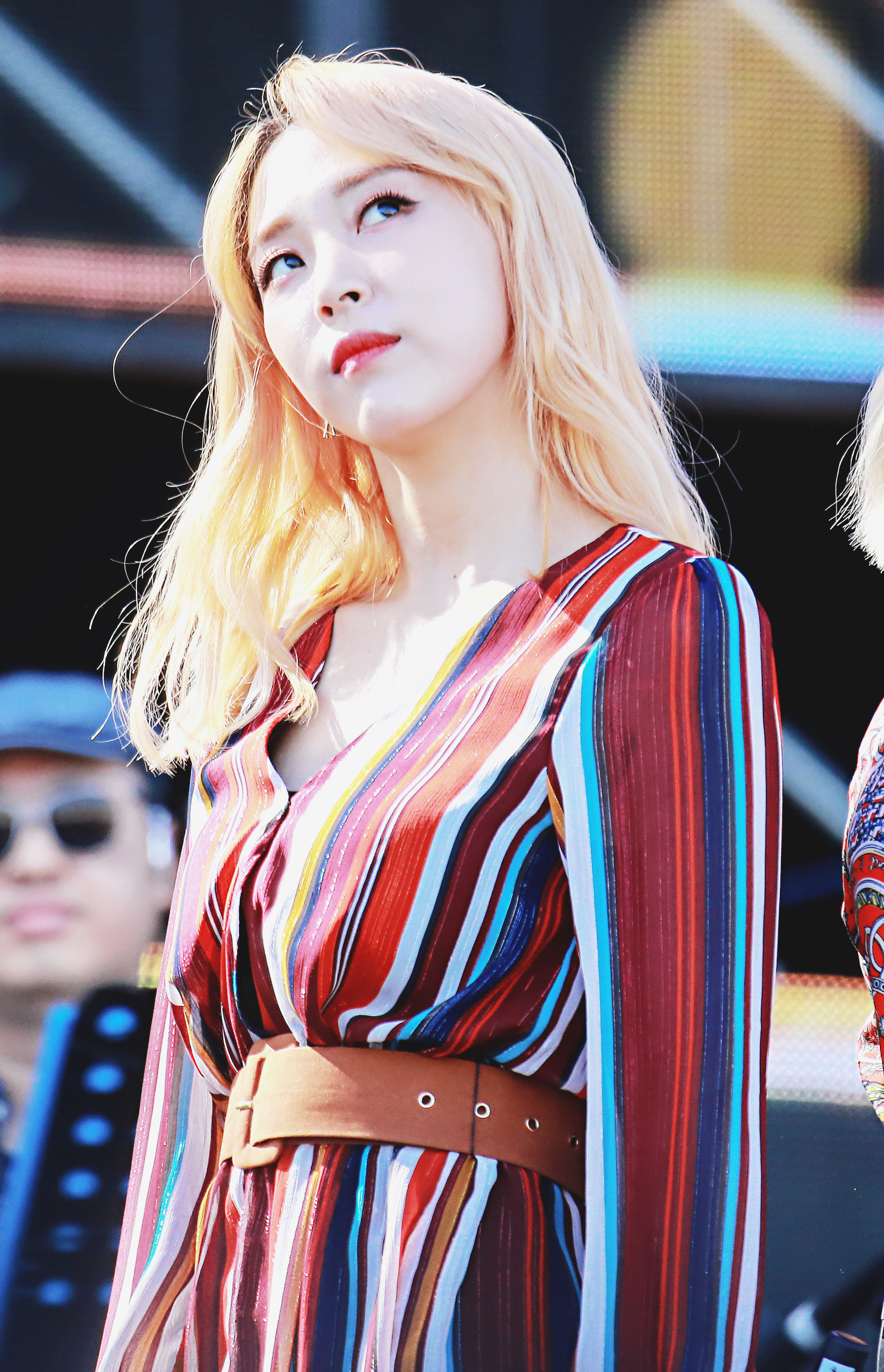 180519_마마무